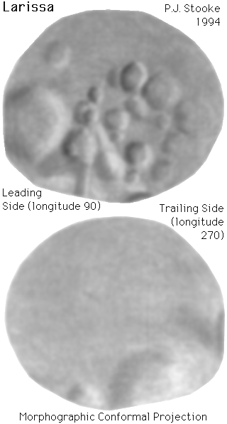 Shaded relief map of Larissa, a small inner satellite of Neptune. As with all maps, it is the cartographer's interpretation and not all features are necessarily certain given the limited data available - this interpretation stretches the data as far as is feasible. The original map was published in its full form with latitude-longitude grid and feature names, in: Stooke, P.J., 1994. "The Surfaces of Larissa and Proteus", EARTH, MOON AND PLANETS, V. 65, pp. 31-54. Positions in the map are controlled by a digital shape model, described in that paper. The shape data for Larissa are very limited. For this map, the three dimensional convex hull of the shape model was projected into the Morphographic Conformal Projection (the conventional Stereographic Projection modified for non-spherical worlds). The leading side (longitude 90 runs vertically down the centre) faces forwards in the orbit of Larissa. The trailing side (longitude 270 runs vertically down its centre) faces backwards along the orbit. Longitude 0 is at the righthand end of the leading side, and faces Neptune. As with all conformal (true shape) projections, the scale in these maps varies, increasing from the centre to the outer edge. The map projection is described in: Stooke, P.J. and Keller, C.P., 1990. "Map Projections for Non-Spherical Worlds / the Variable-Radius Map Projections", CARTOGRAPHICA, V. 27, No. 2, pp. 82-100.